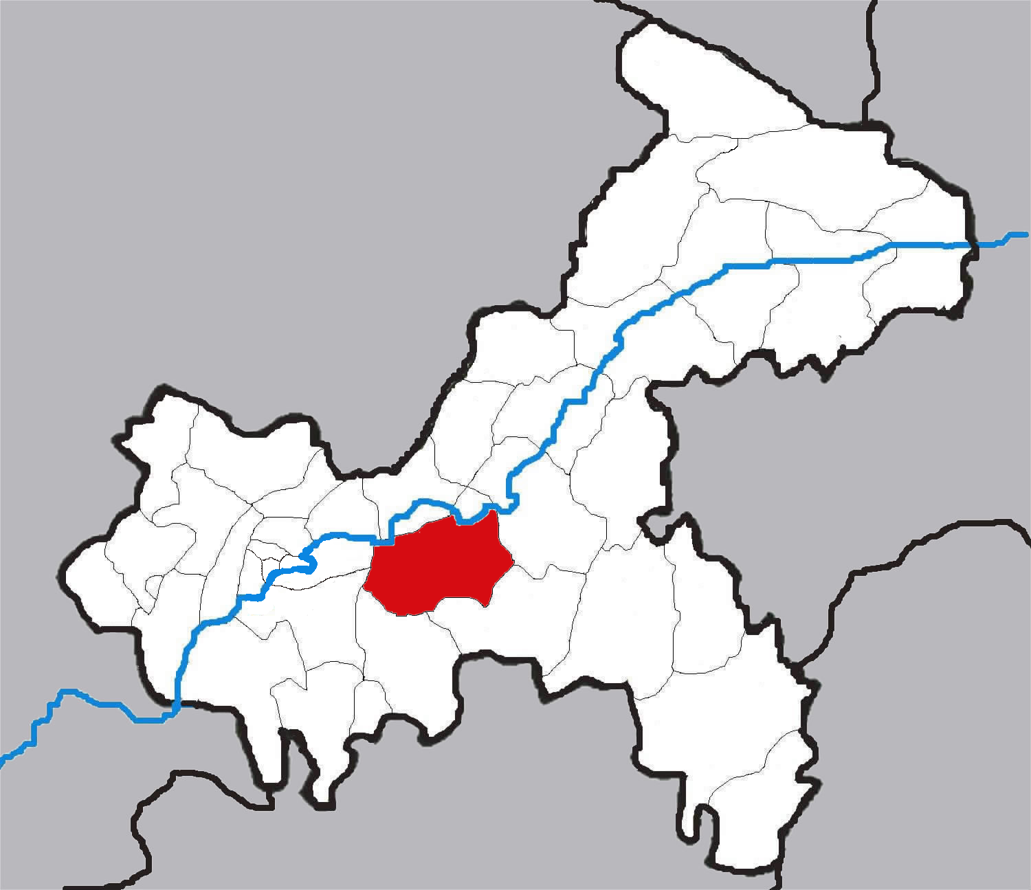 Administration maps of Chongqing, China